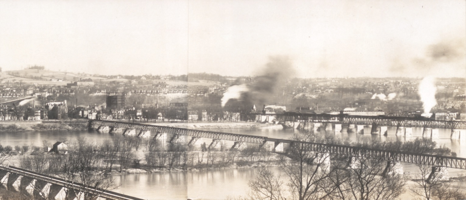 Harrisburg Pa. from Fort Harlington. From left to right: the Market Street Bridge, the Cumberland Valley Railroad Bridge and the Philadelphia and Reading Railroad Bridge